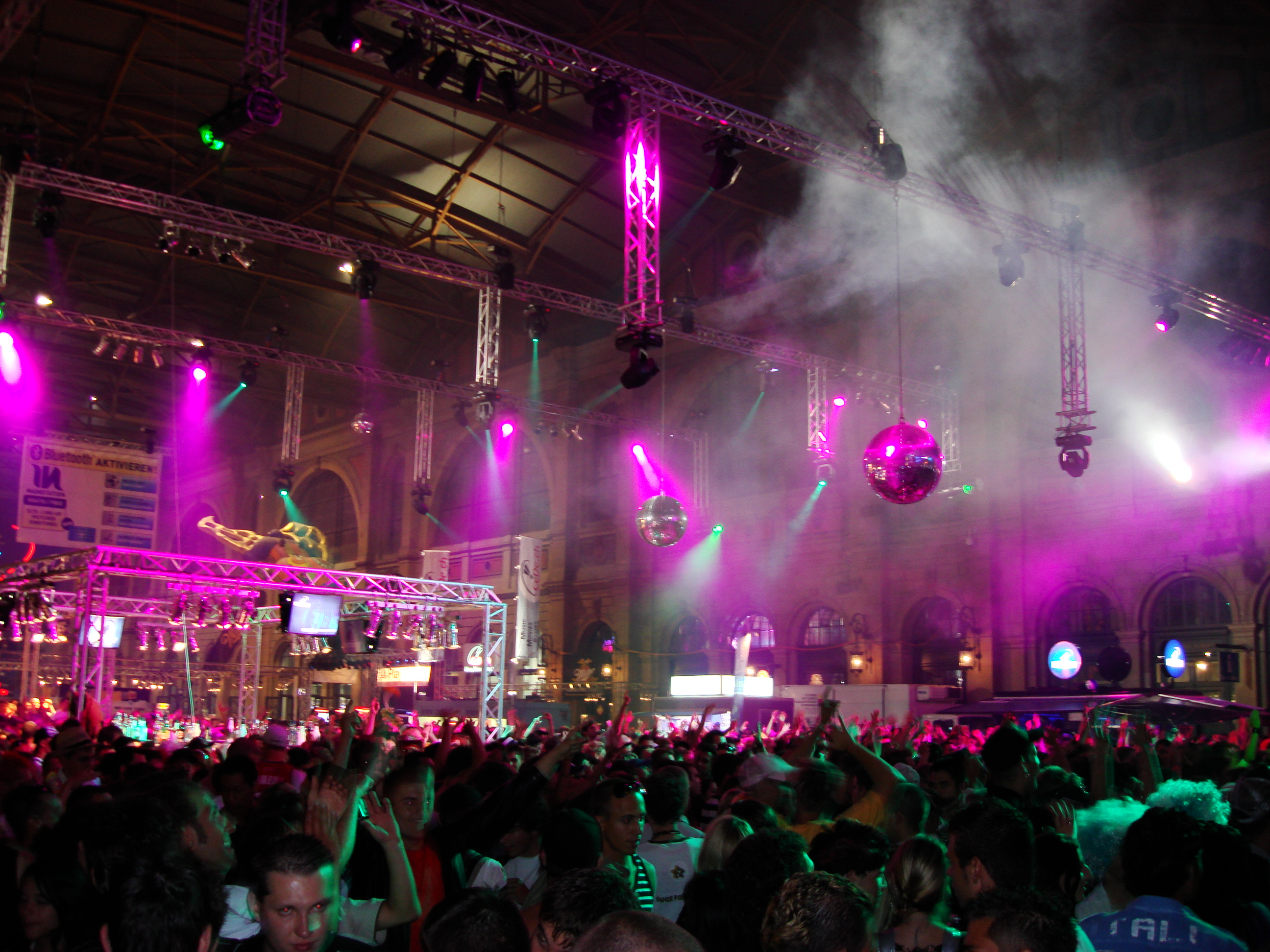 Respect - Streetparade 2007